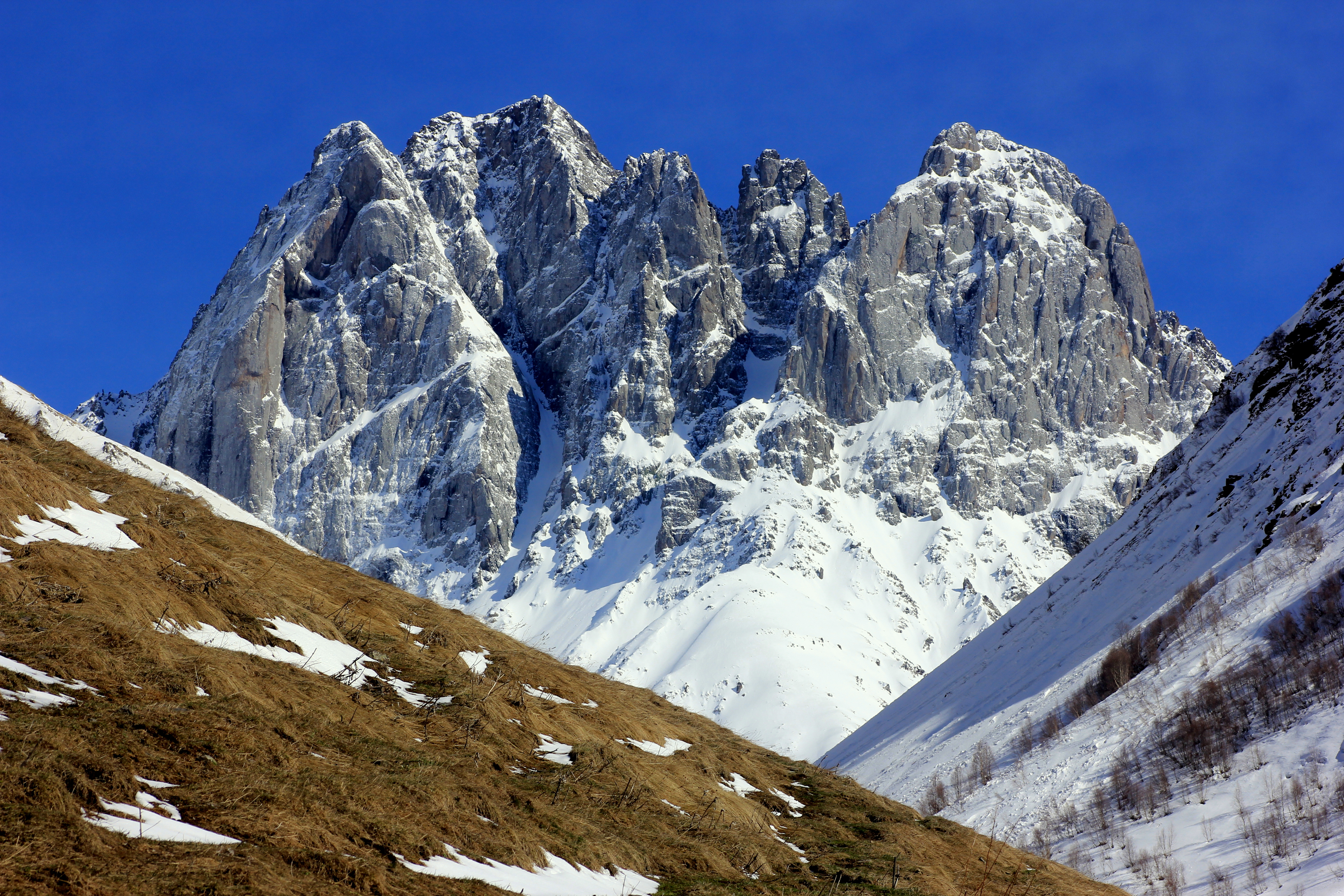 Chaukhi Massif from the north, partly in Kazbegi National Park